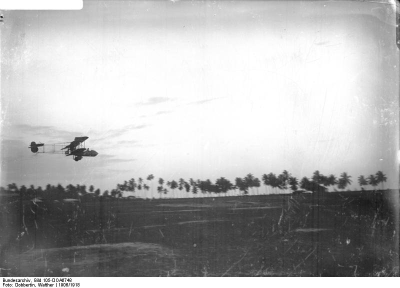 an aircraft of the defense troops, this picture shows Bruno Büchner's prewar Pfalz biplane on a reconnaissance mission in German East Afrika. Surprised by the outbreak of war, both Büchner and his mechanic enlisted in German 'defense corps' and brought their plane with them.